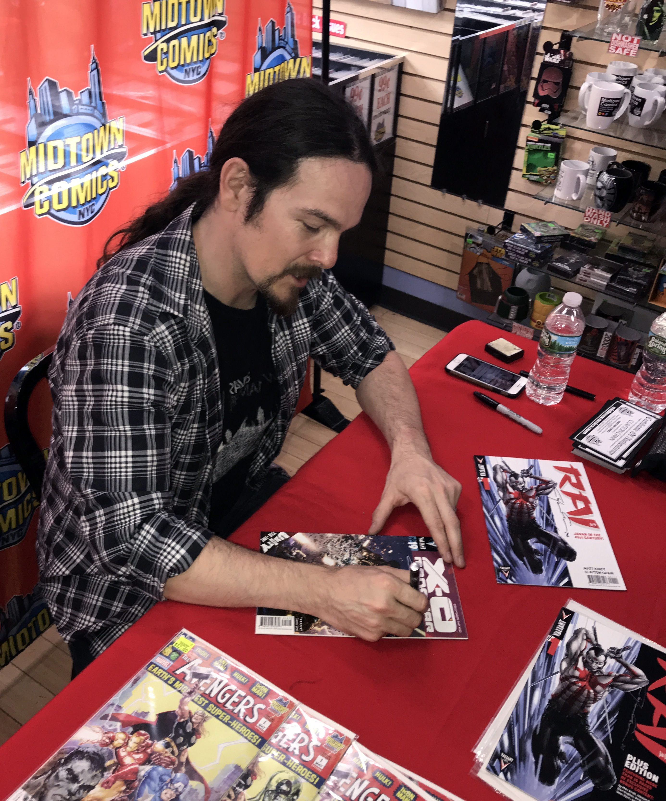 Comics artist Clayton Crain at a May 5, 2018 signing for Avengers (Vol 8) #1, whose cover Crain illustrated, at Midtown Comics Downtown in Manhattan. In the photo, Crain is signing books published by Valiant Comics that he previously illustrated. This photo was created by Luigi Novi. It is not in the public domain, and use of this file outside of the licensing terms is a copyright violation.